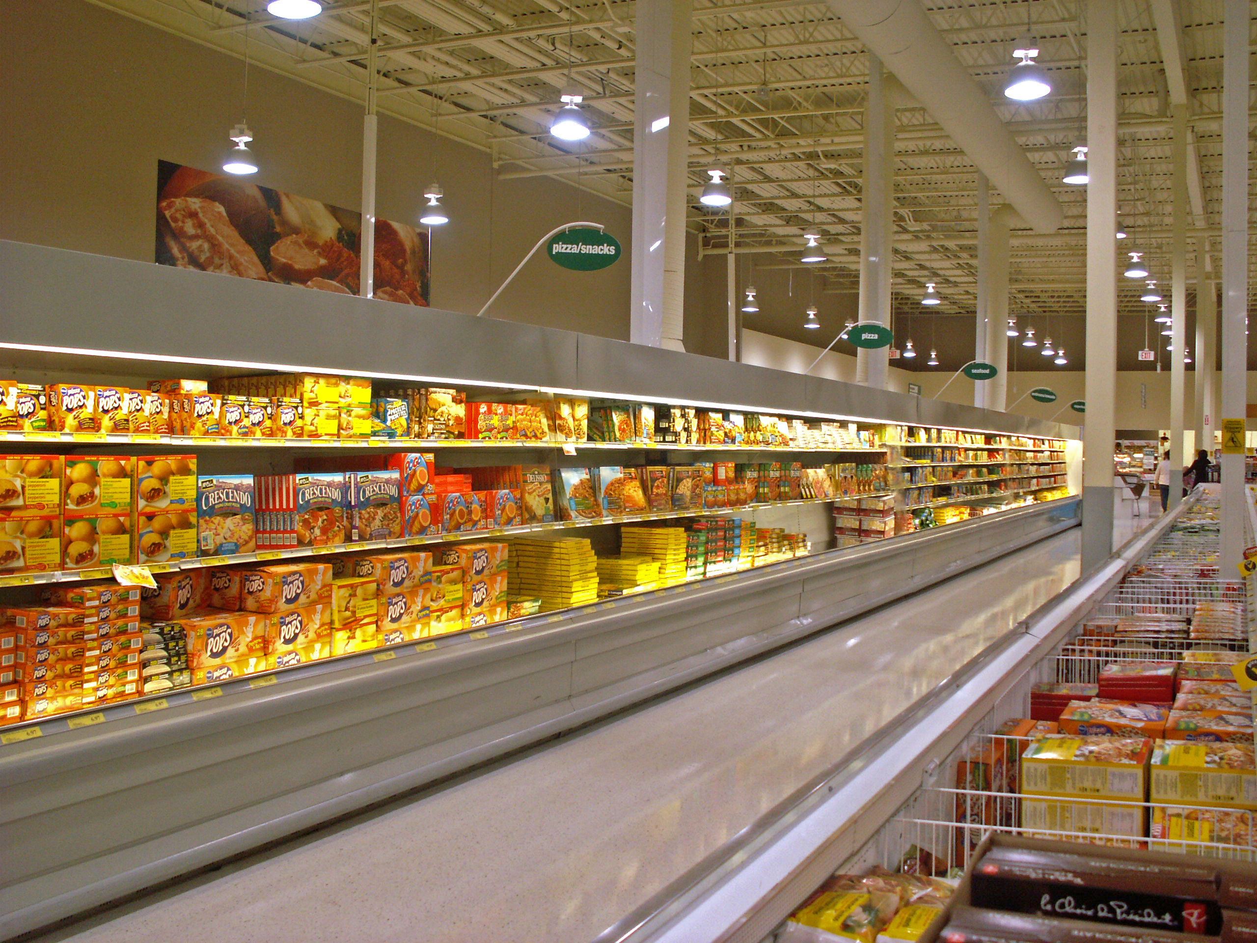 Frozen foods at the Real Canadian Superstore in Winkler, Manitoba